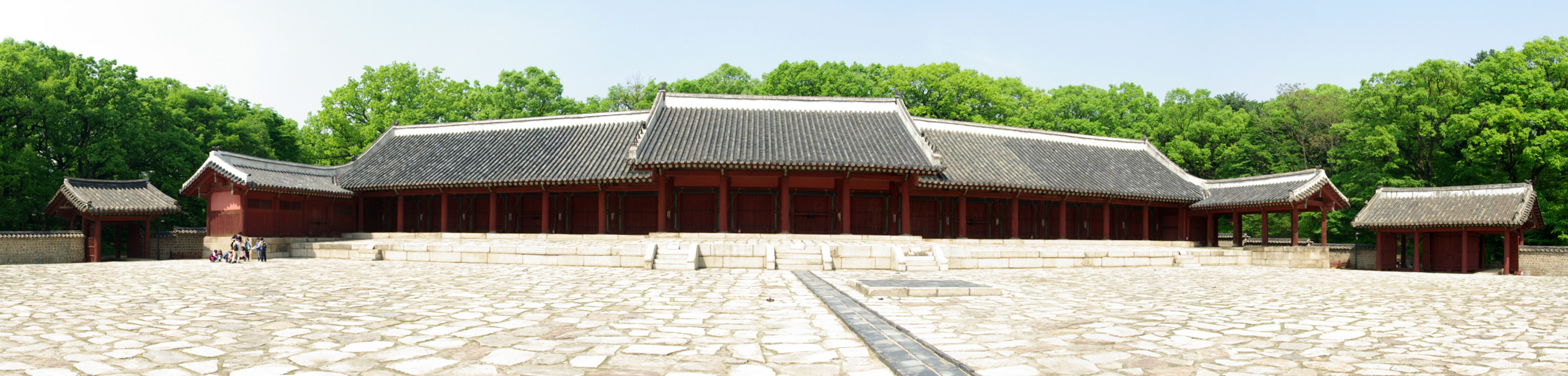 Yeongnyeongjeon